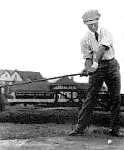 A circa 1912 photo of professional golfer Stewart Maiden in the downswing. Author Unknown Date c. 1912